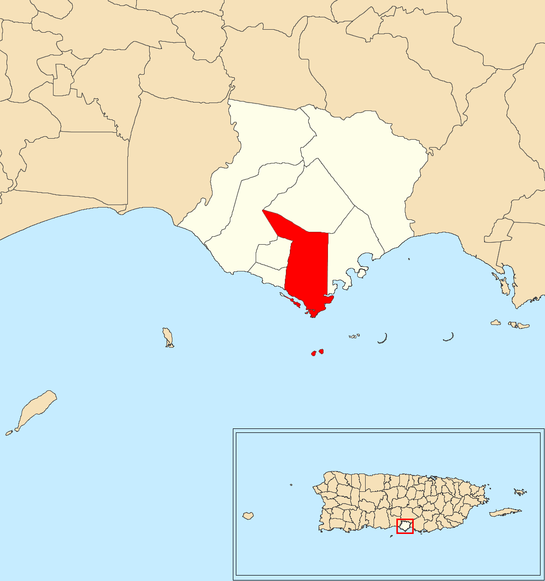 Felicia 1, Santa Isabel, Puerto Rico locator map